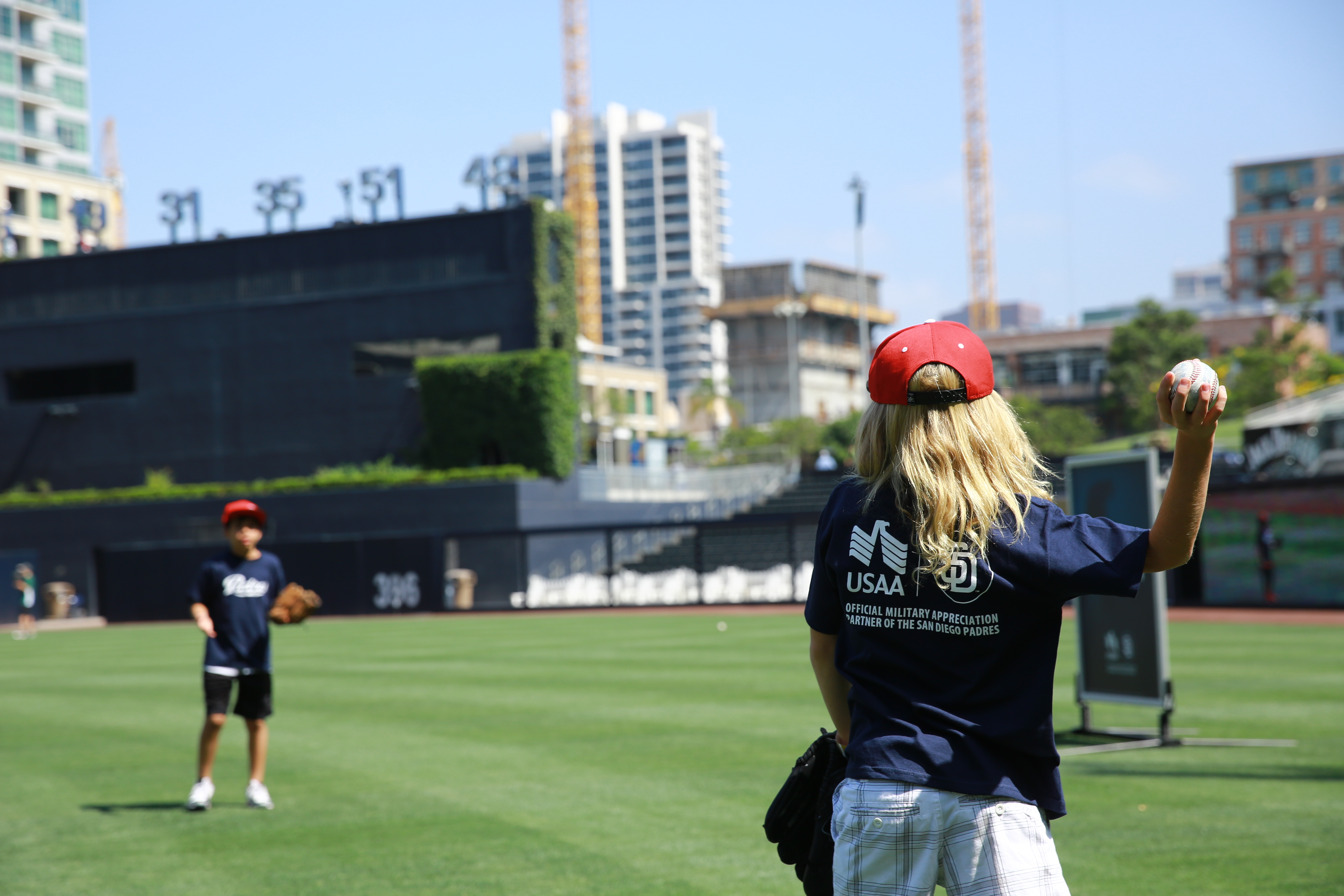 Service members’ children play catch during the most recent San Diego Padres baseball clinic at Petco Park, June 24, 2014. Military members and their families in the San Diego area were invited to the free clinic where children were given hands-on instruction from several Padres players.